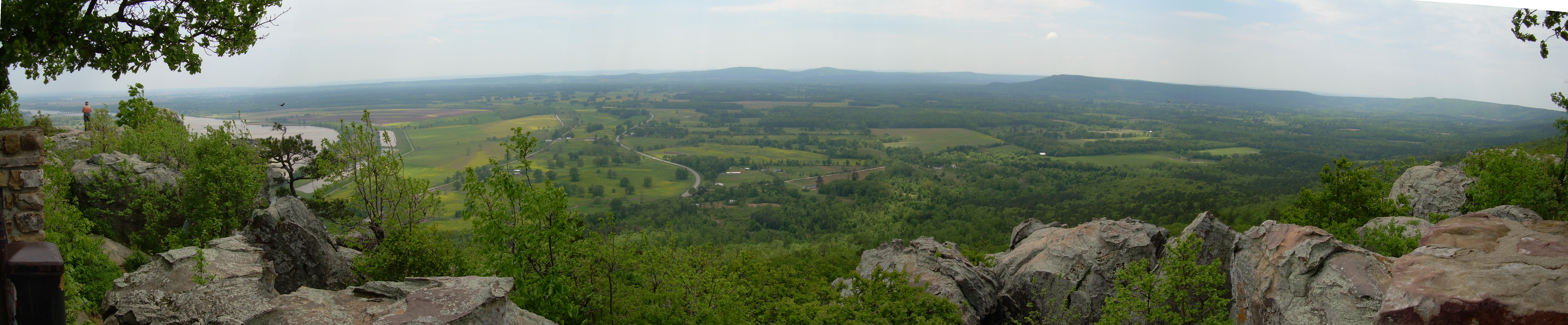 Panoramic view from Petit Jean Mountain, the Arkansas River can be seen on the left. The alleged grave of "Petit Jean" is immediately below the foreground.